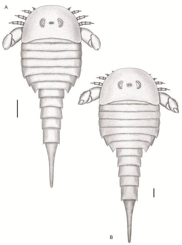 Reconstructions of Strobilopterus proteus specimens